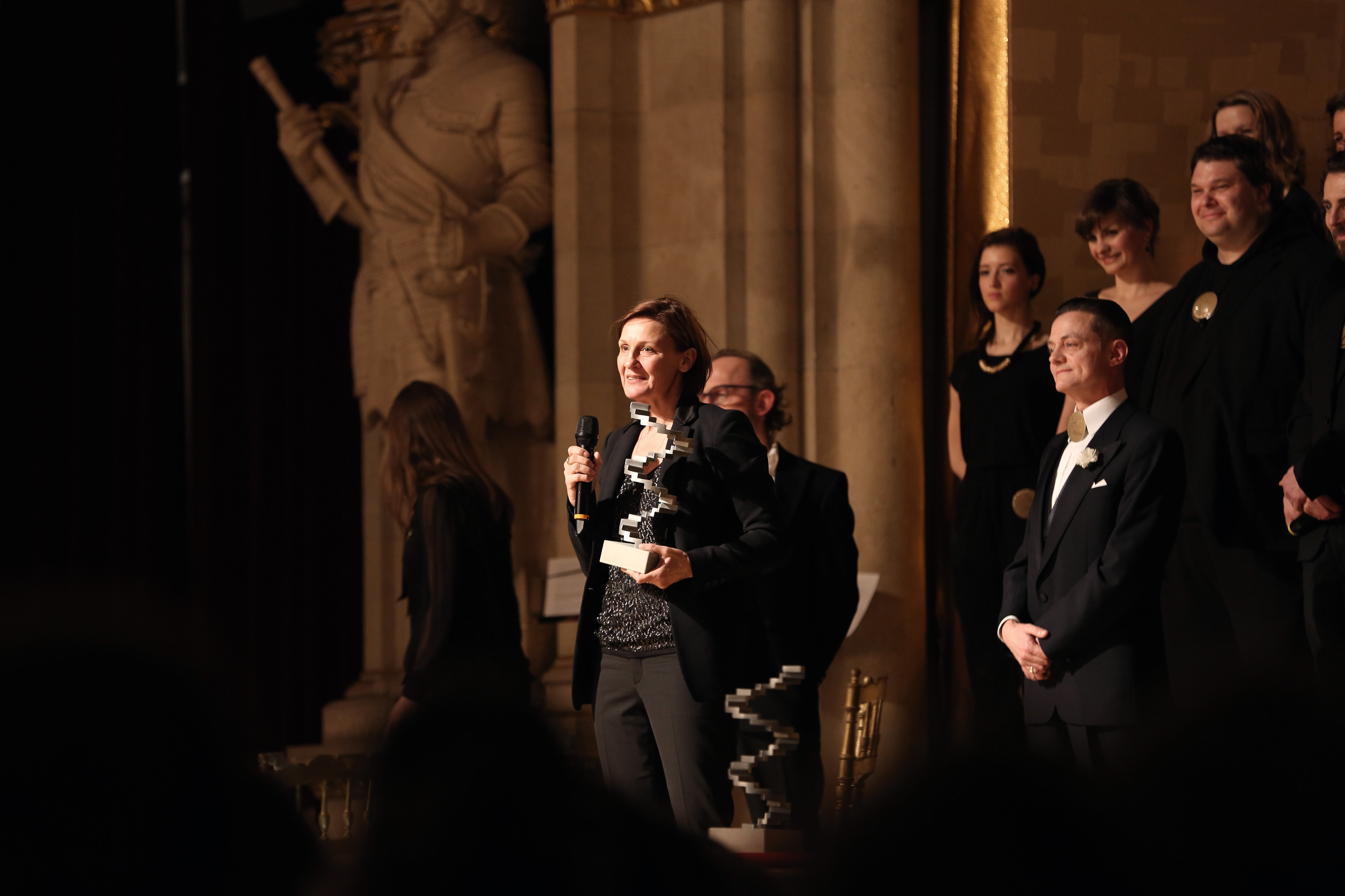 Natascha Curtius-Noss (best costume design for The Dark Valley) at the Austrian Film Awards 2015 at Rathaus, Vienna,Austria.